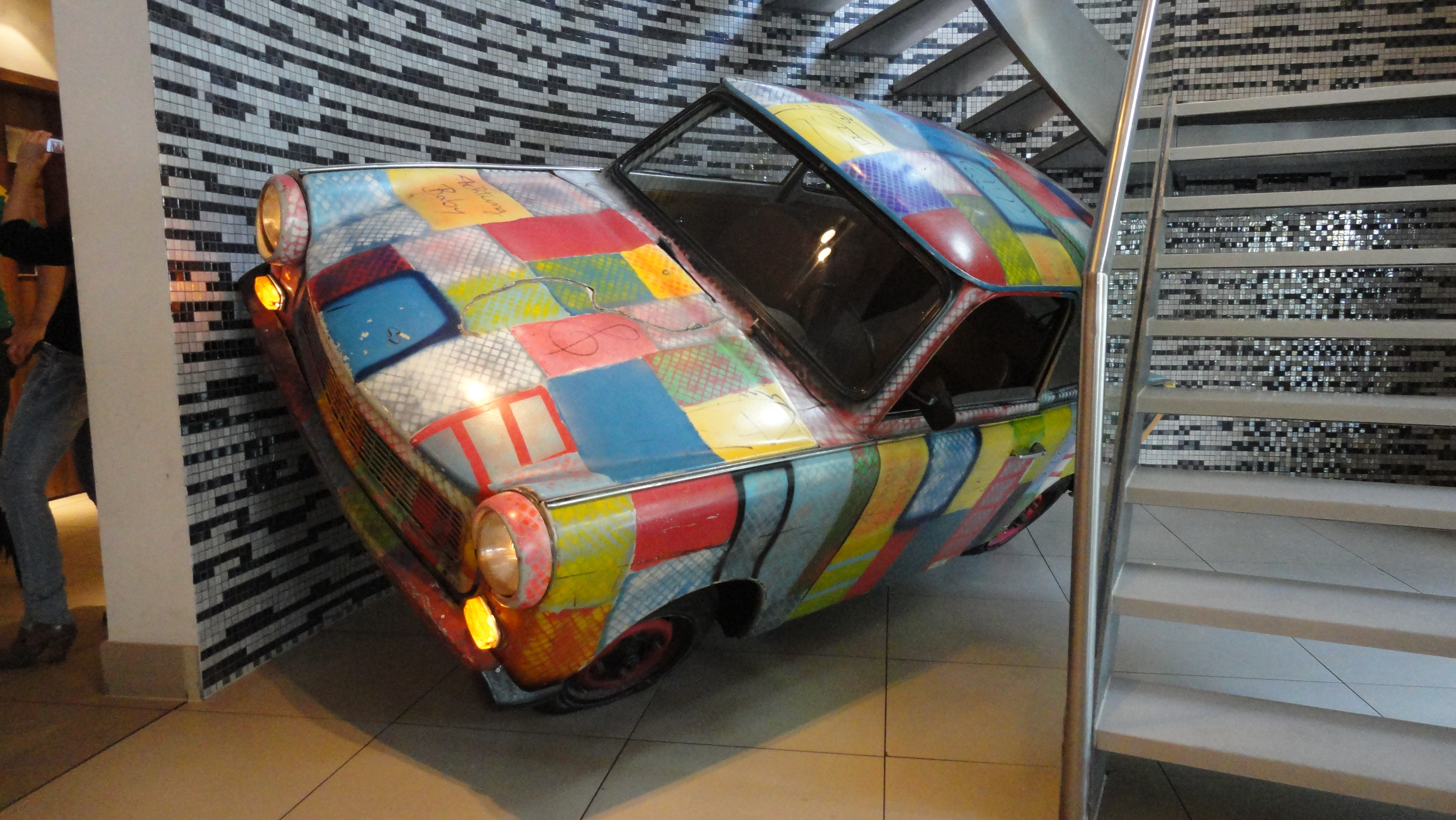 Colourful Trabant and Hard Rock Cafe Berlin, Germany